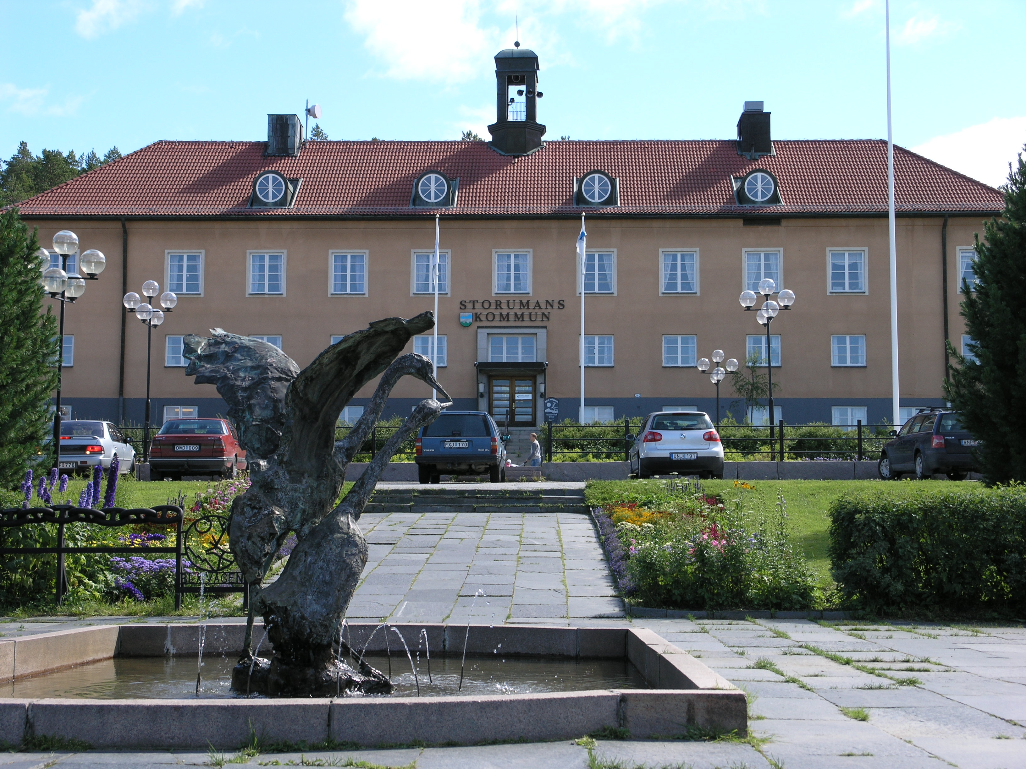 Town hall Storuman